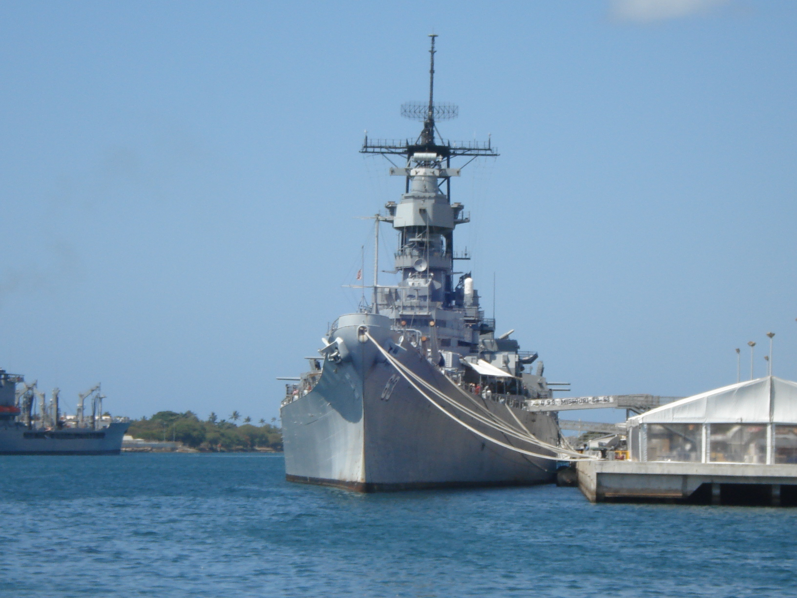 USS Missouri as seen from the Arizona Memorial in Pearl Harbor, HI